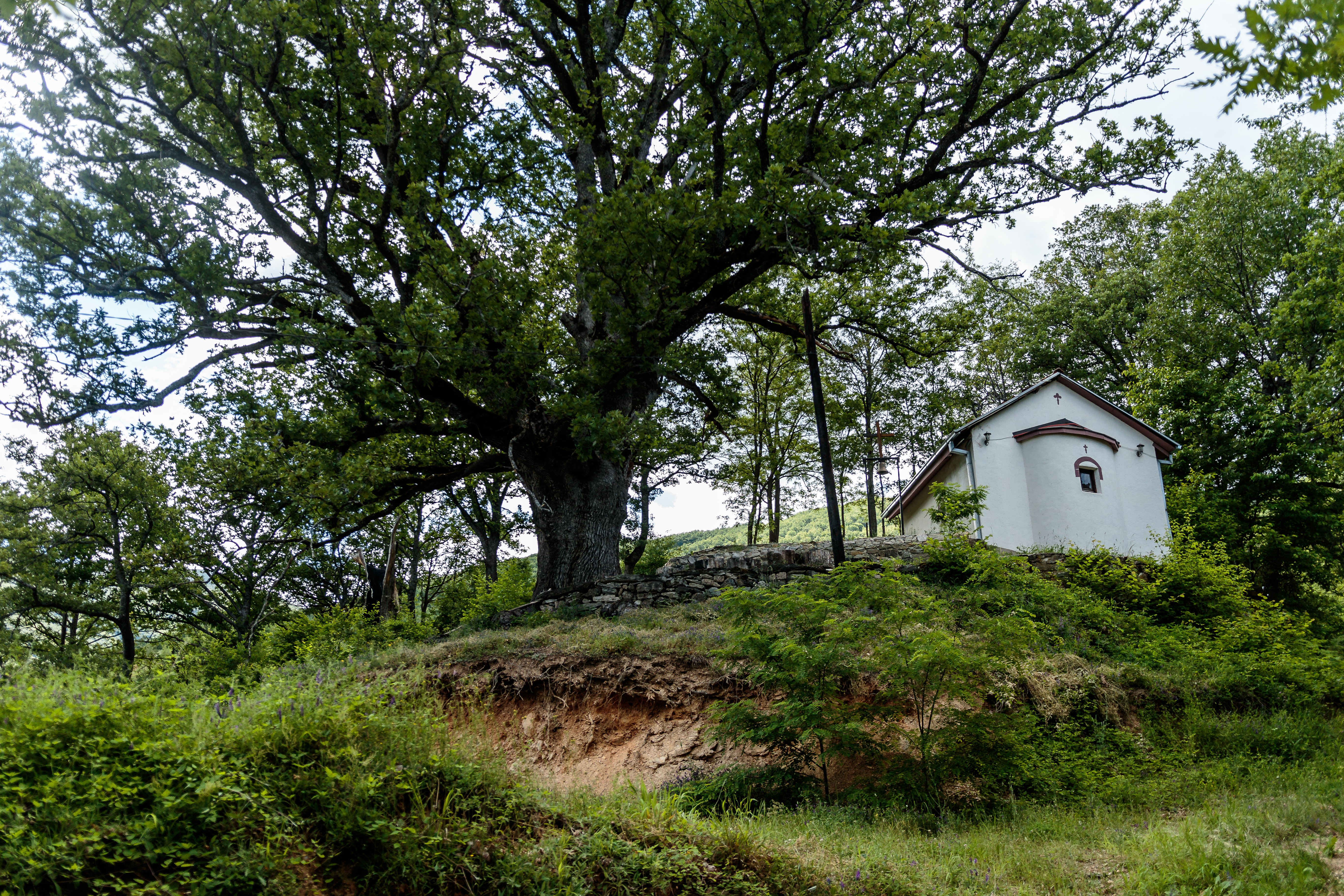 View of the St. Petka Church in the village Virovo